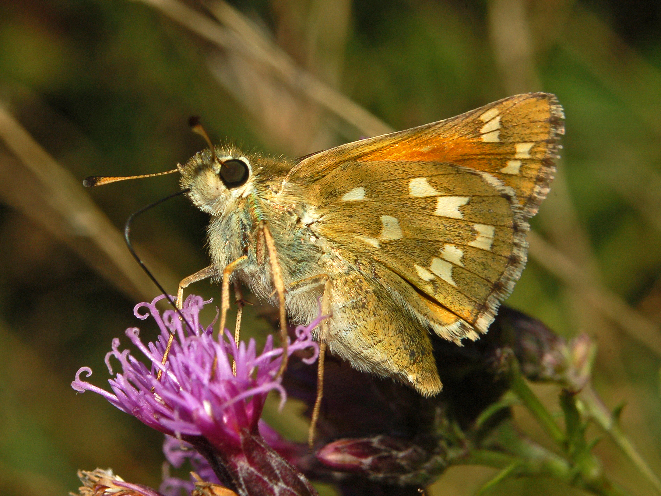 Hesperia comma, Underside. Praglia, Genova, Italy